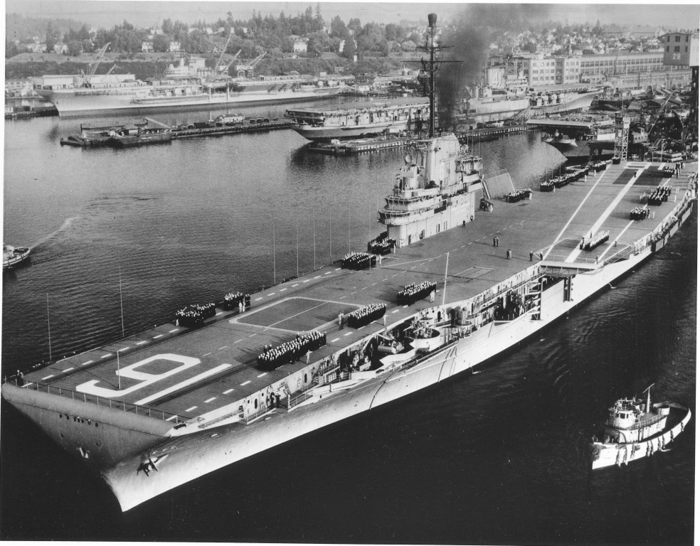 The U.S. Navy aircraft carrier USS Lexington (CVA-16) steams out of the Puget Sound Naval Shipyard, Washington (USA), circa in September 1955, headed for her initial sea trials after SCB-27C & -125 conversions. USS Franklin D. Roosevelt (CVA-42), in the background, is well into her SCB-110 modernization. USS Midway (CVA-41), in the middle distance, is in the very early stages of (or being prepared for) her own SCB-110. Another Essex-class carrier is visible on the right, either USS Essex (CVA-9) or USS Yorktown (CVA-10) during their SCB-125 conversions.